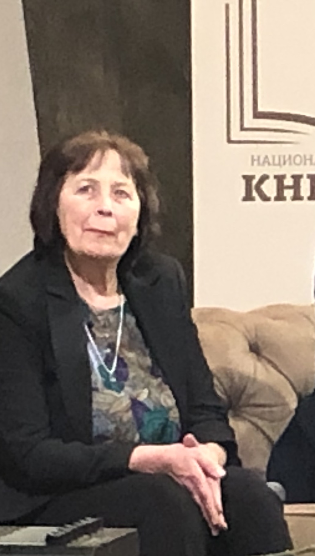 VeraDeyanova